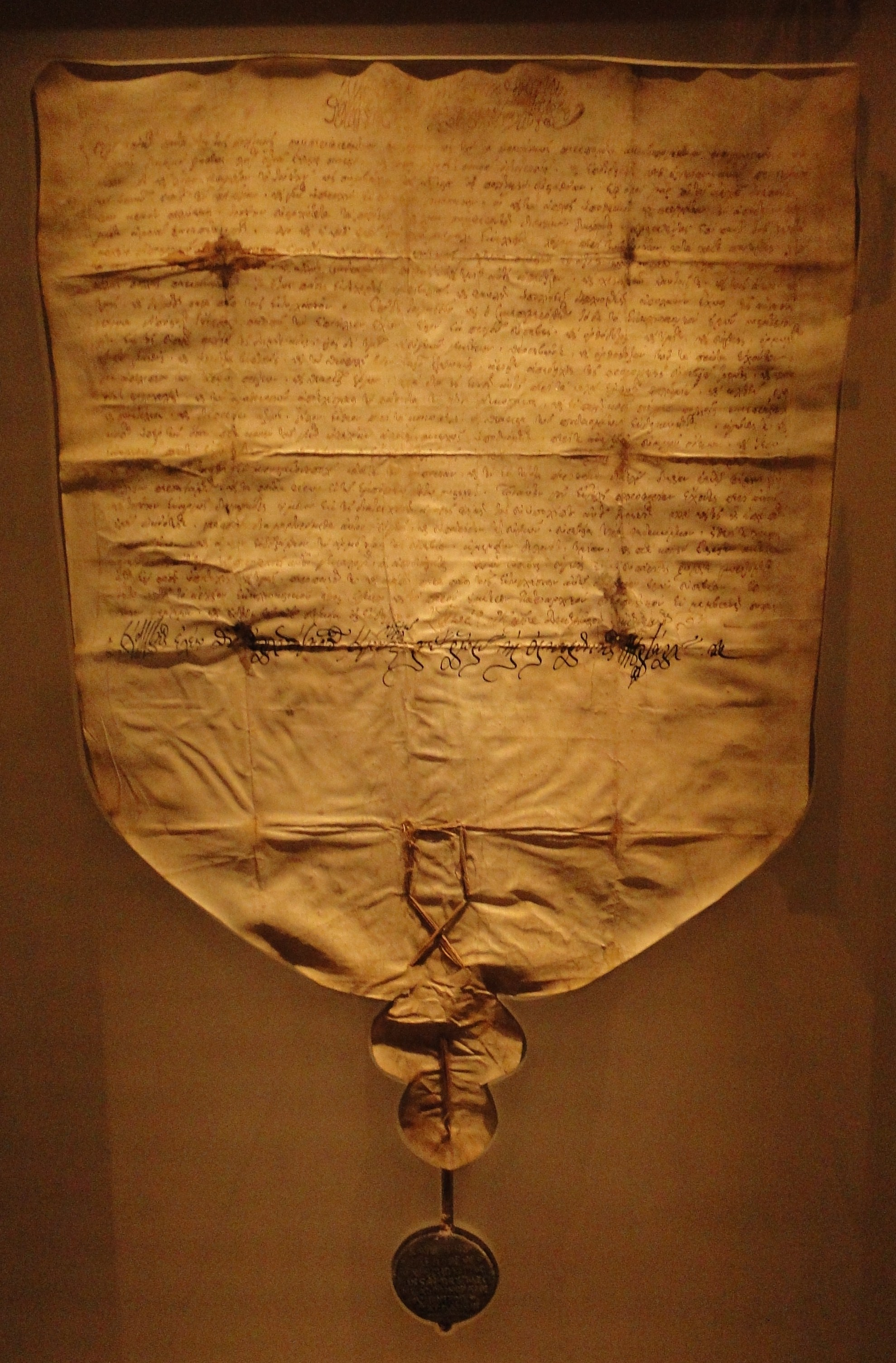 Document and lead seal of Kallinikos IV, also recorded as V, (1801-1806)